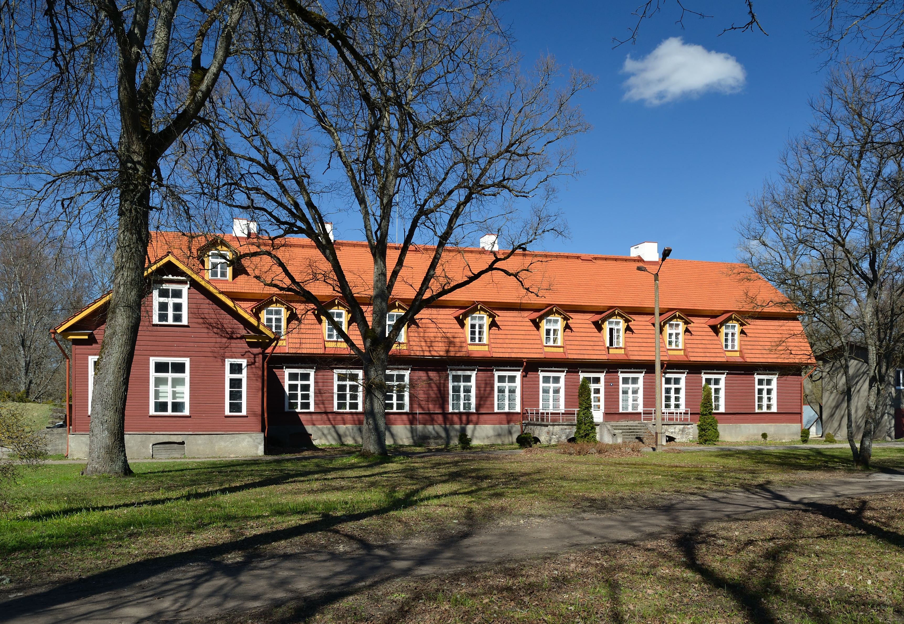 Särevere manor main building